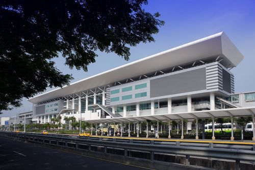 THSR Zuoying Station